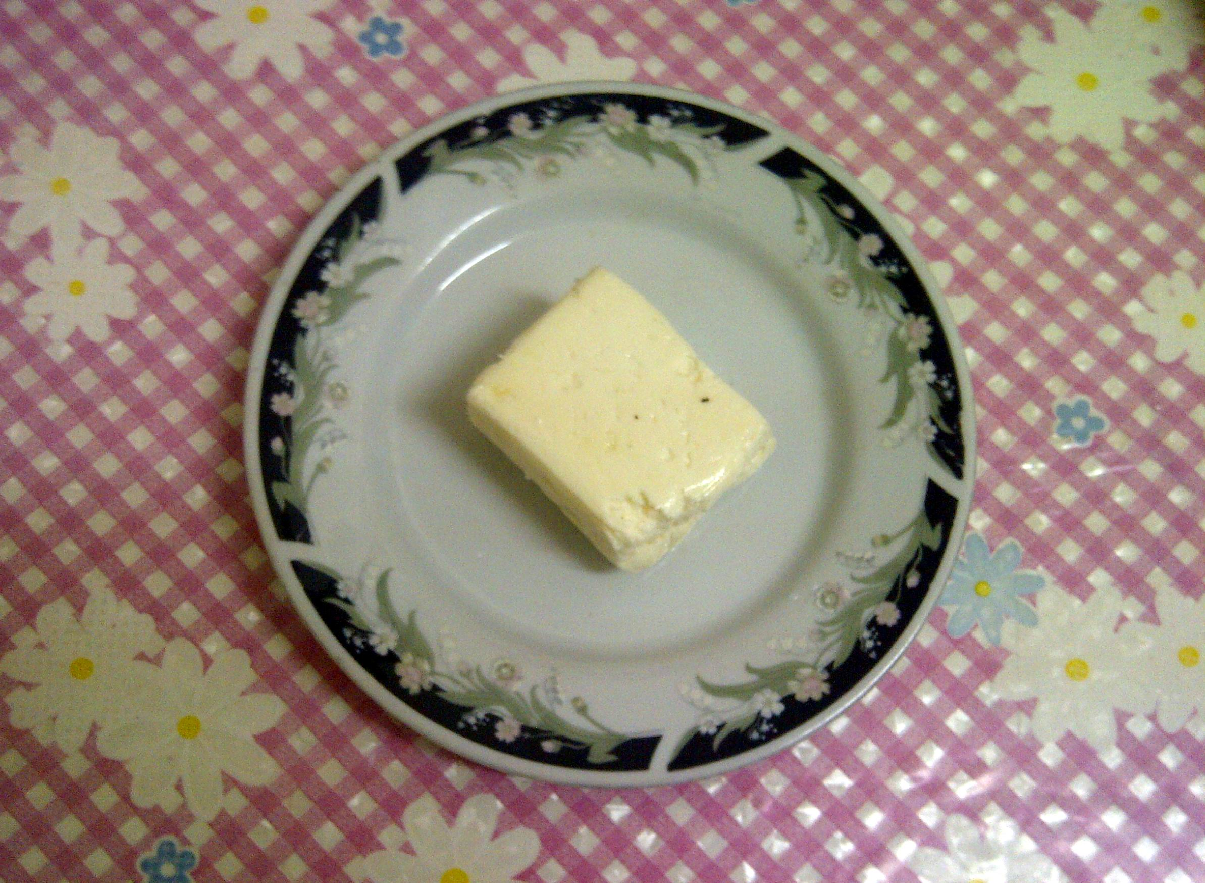 Halloumi-102